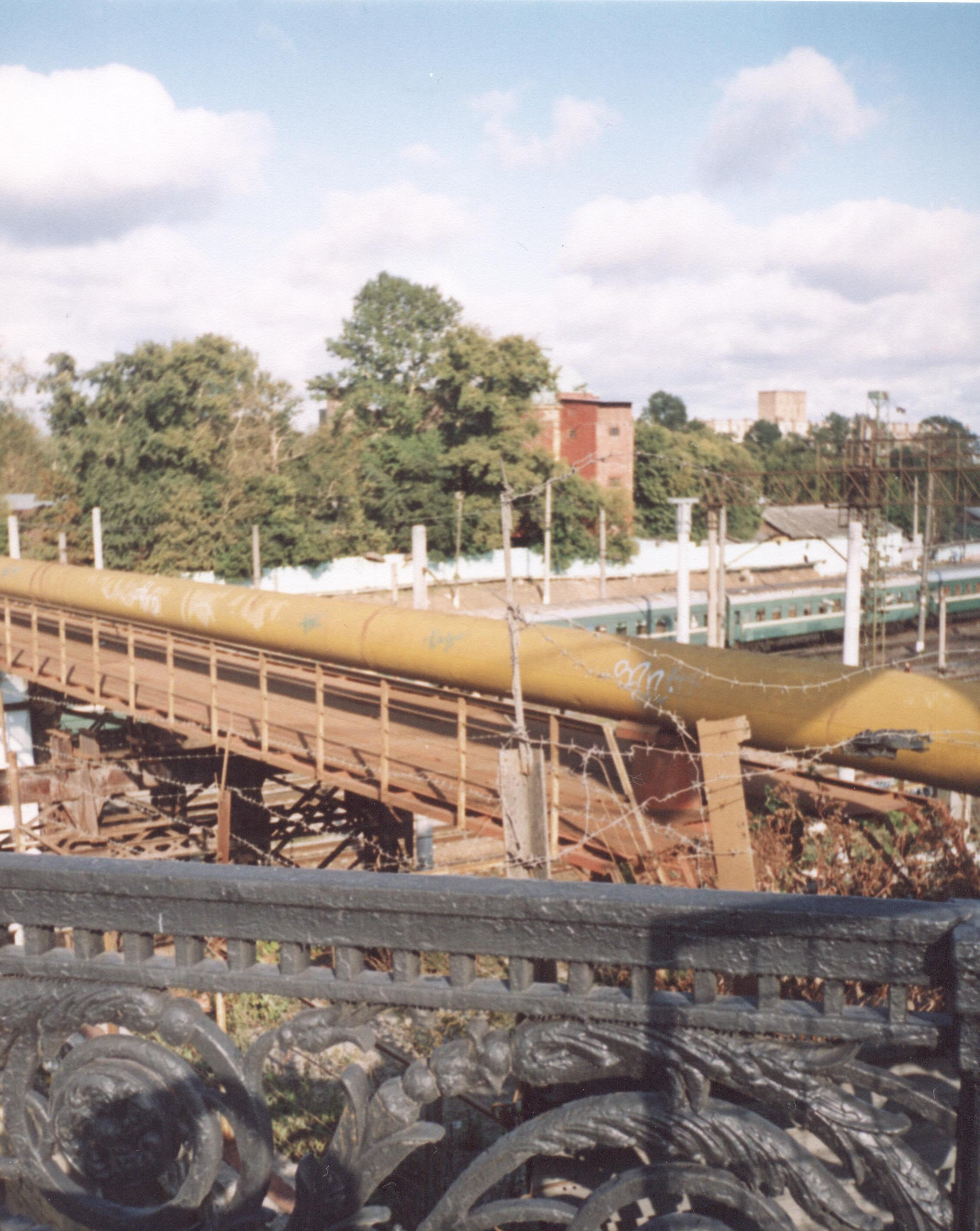 Stary Krestovski Puteprovod (Old Krestovsky Overpass) in Moscow